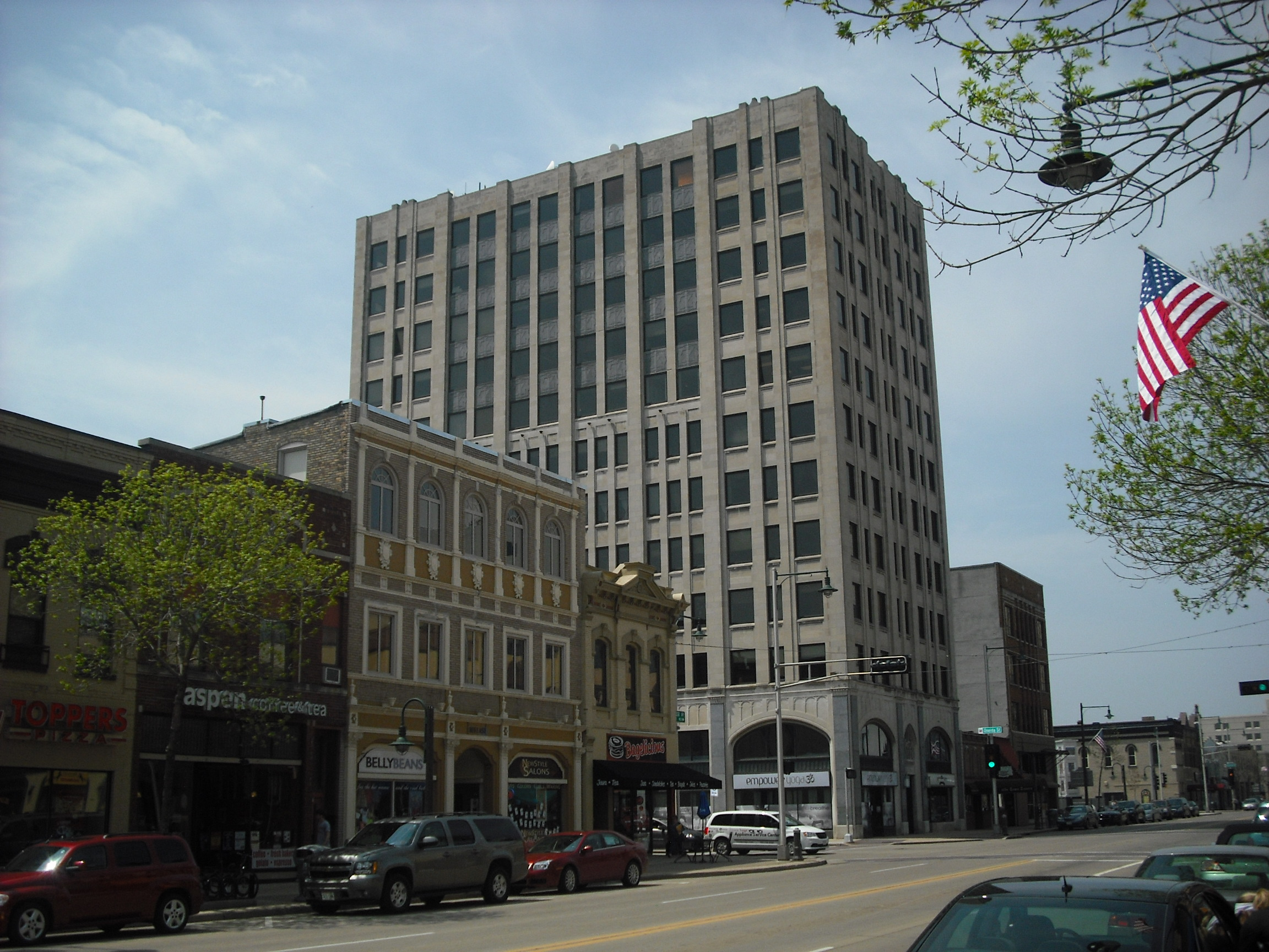 This was Appleton’s first skyscraper, completed in 1931